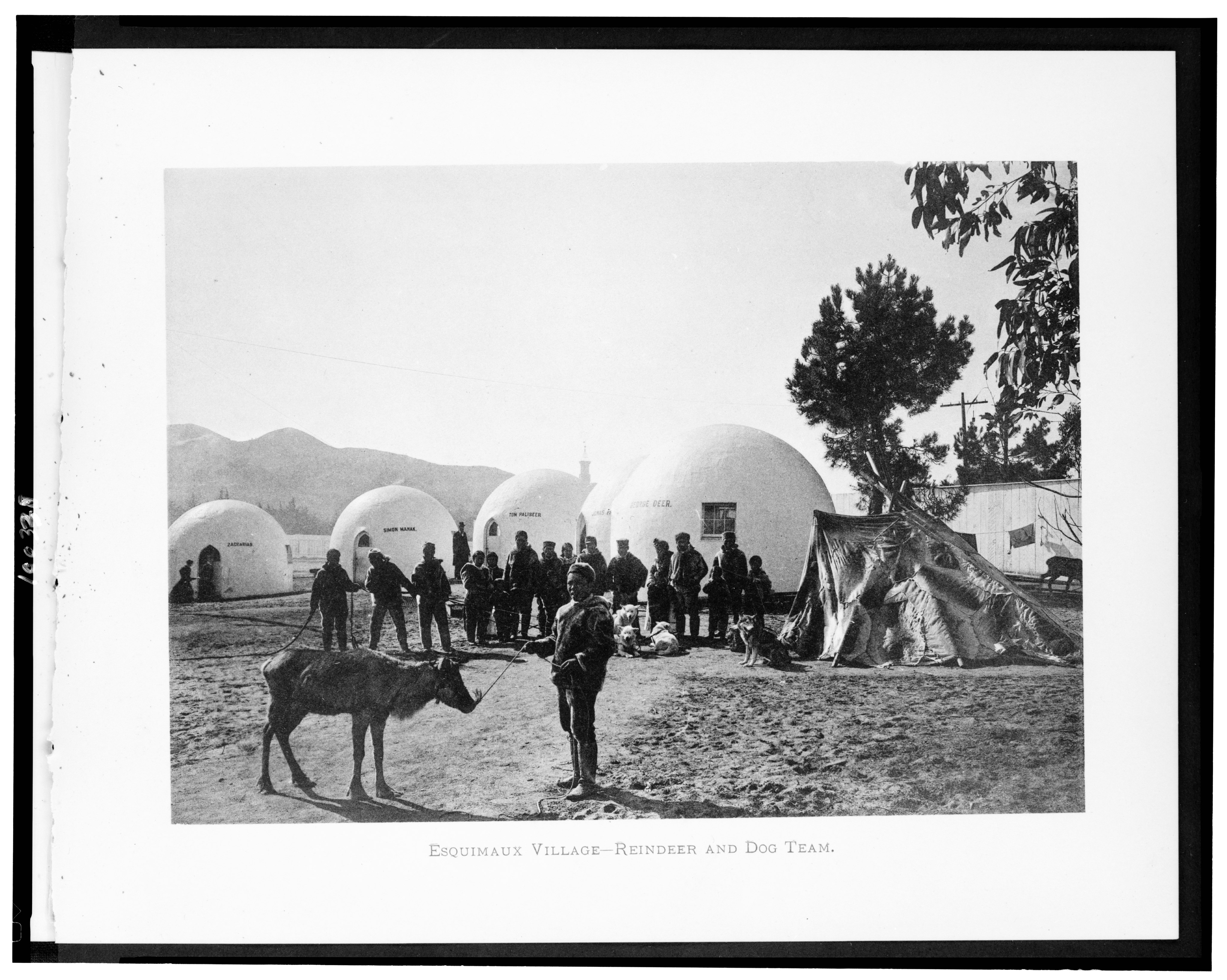 Title: Esquimaux village--reindeer and dog team Abstract/medium: 1 photomechanical print : photogravure.